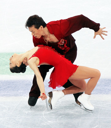 Shen Xue and Zhao Hongbo at the 2010 Winter Olympics (FS).